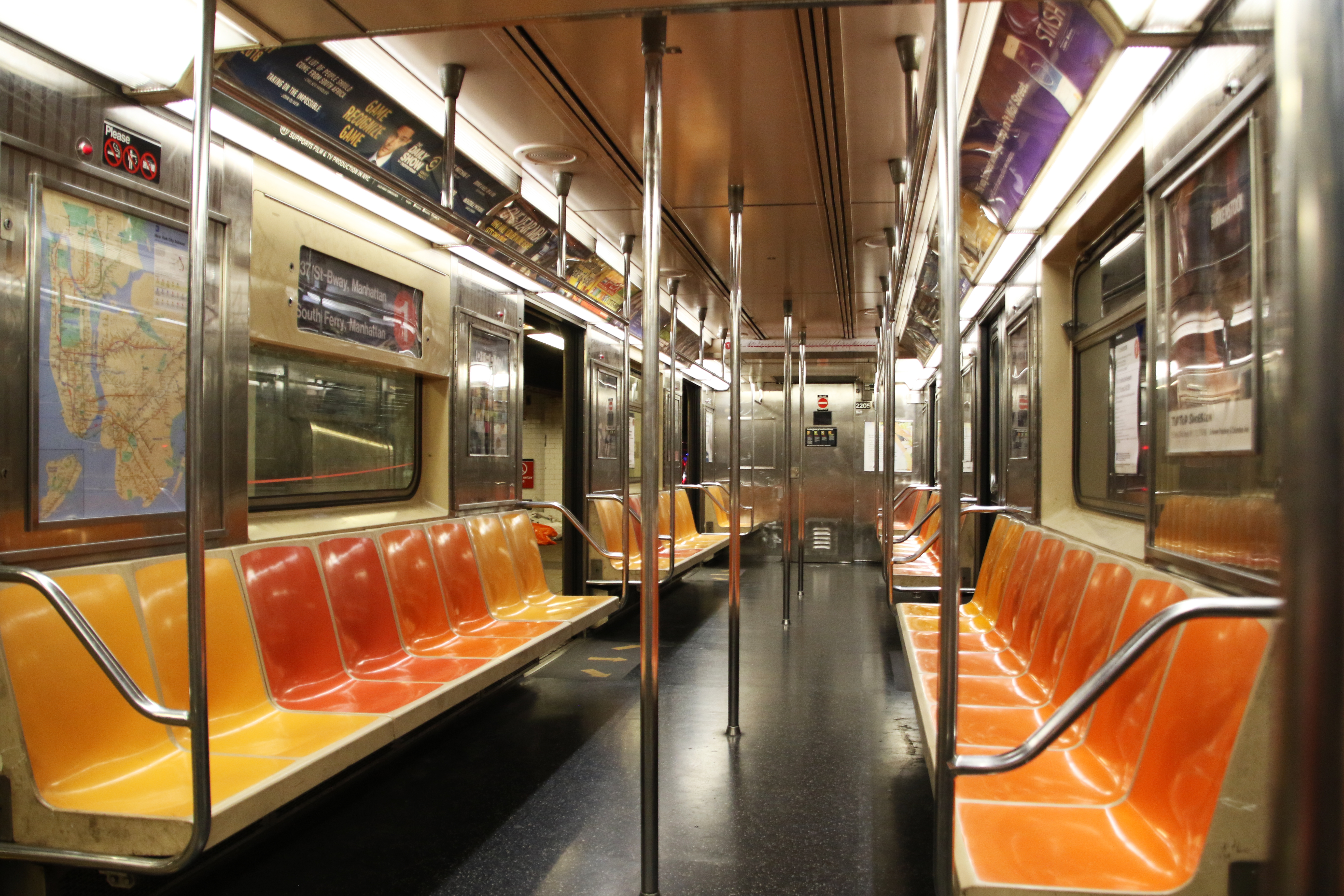 A view of the interior of a MTA NYC Subway R62A car.